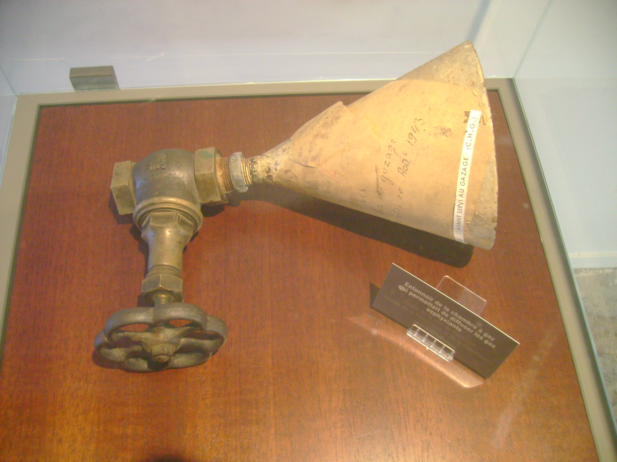 The Nazi concentration camp Natzweiler-Struthof in Alsace, modern France